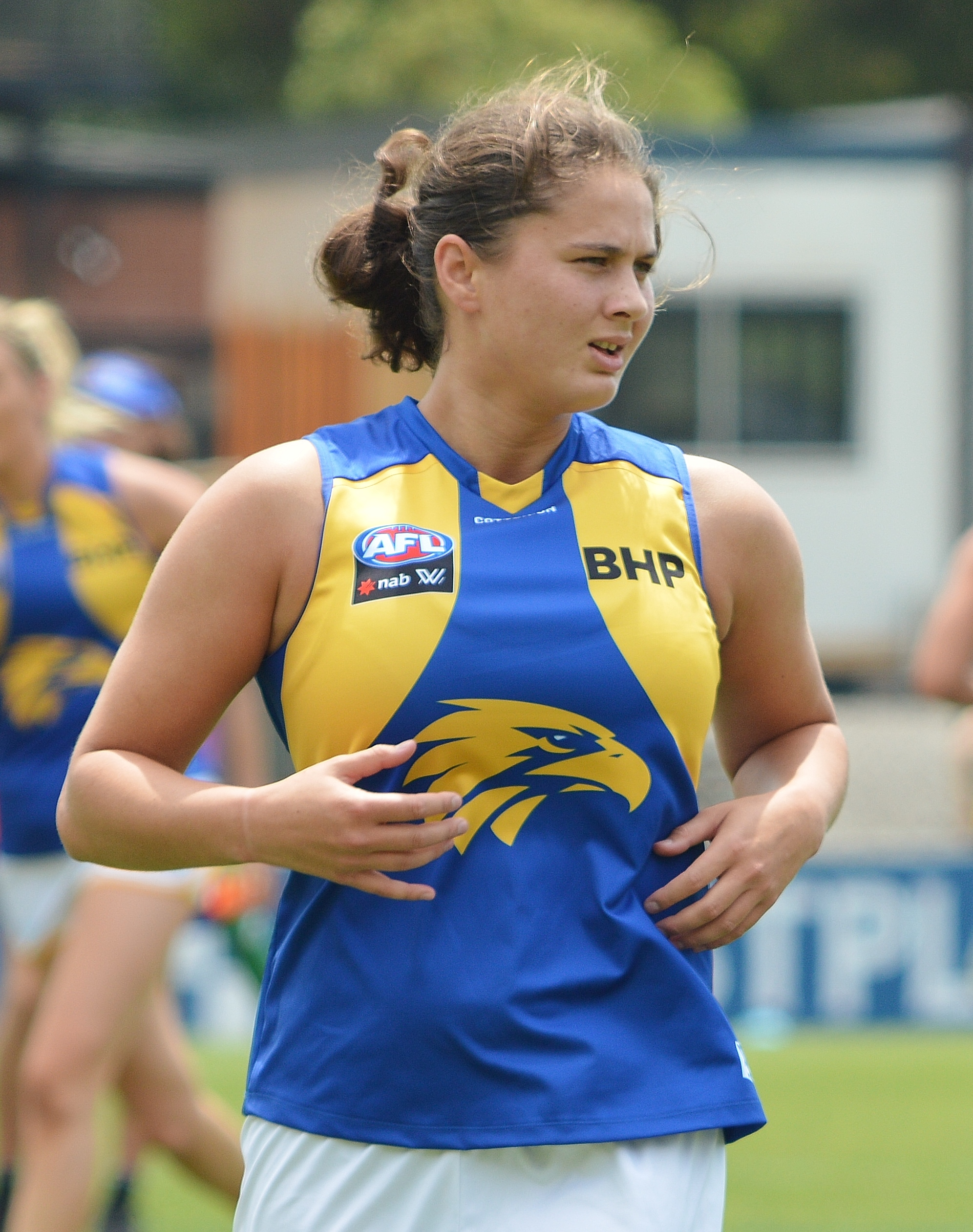 McKenzie Dowrick with West Coast during a pre-season AFL Women's match against Richmond at Punt Road Oval in January 2020.